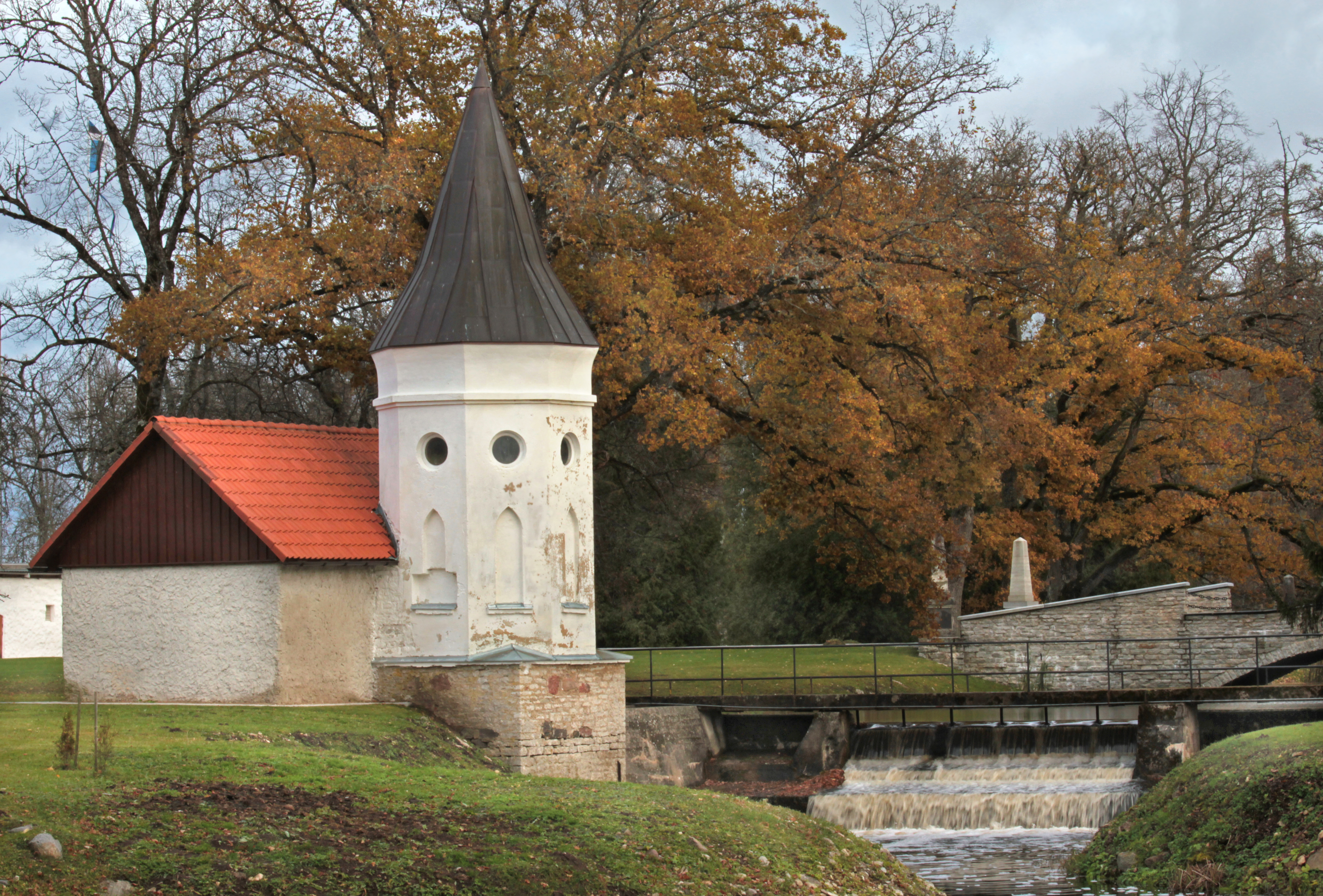 Pedestrian bridge over the river Liivi. Koluvere Castle. Western Estonia.